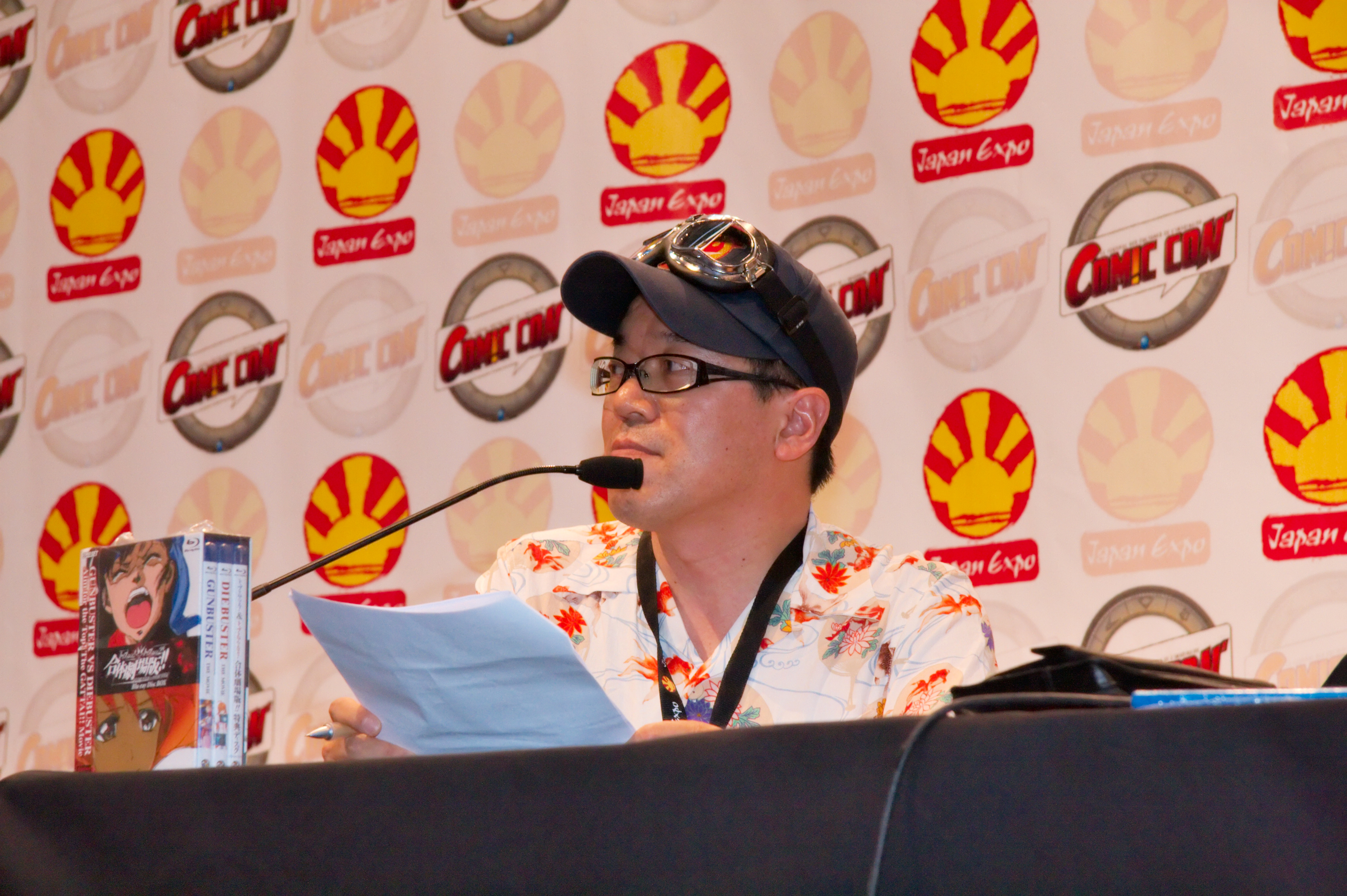 Takami Akai's lecture at Japan Expo 2009 (Paris, France)